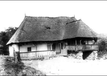 dwelling house from Lozsád/Jeledinți, 1908